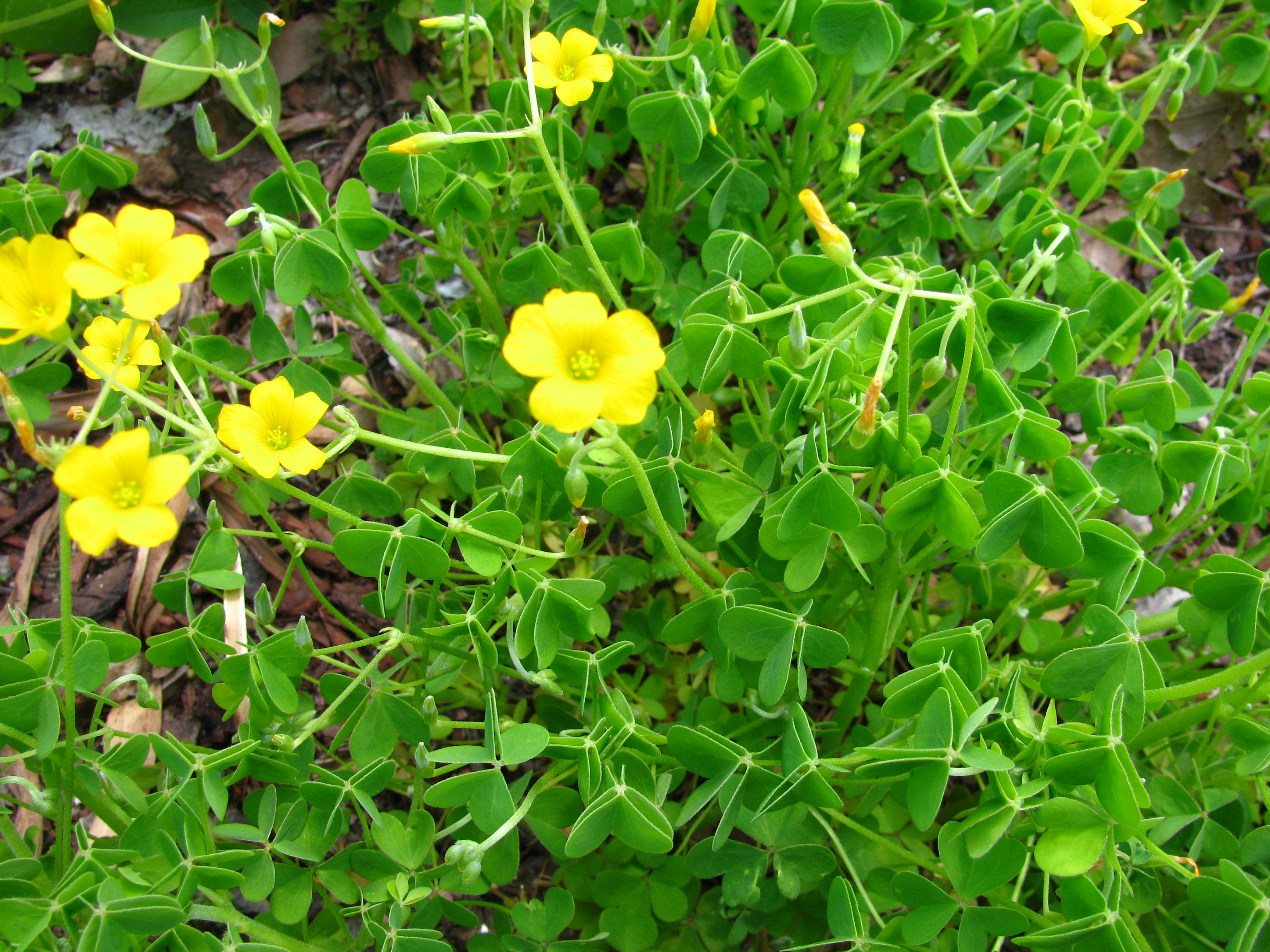 Oxalis stricta showing blossoms and folded foliage.